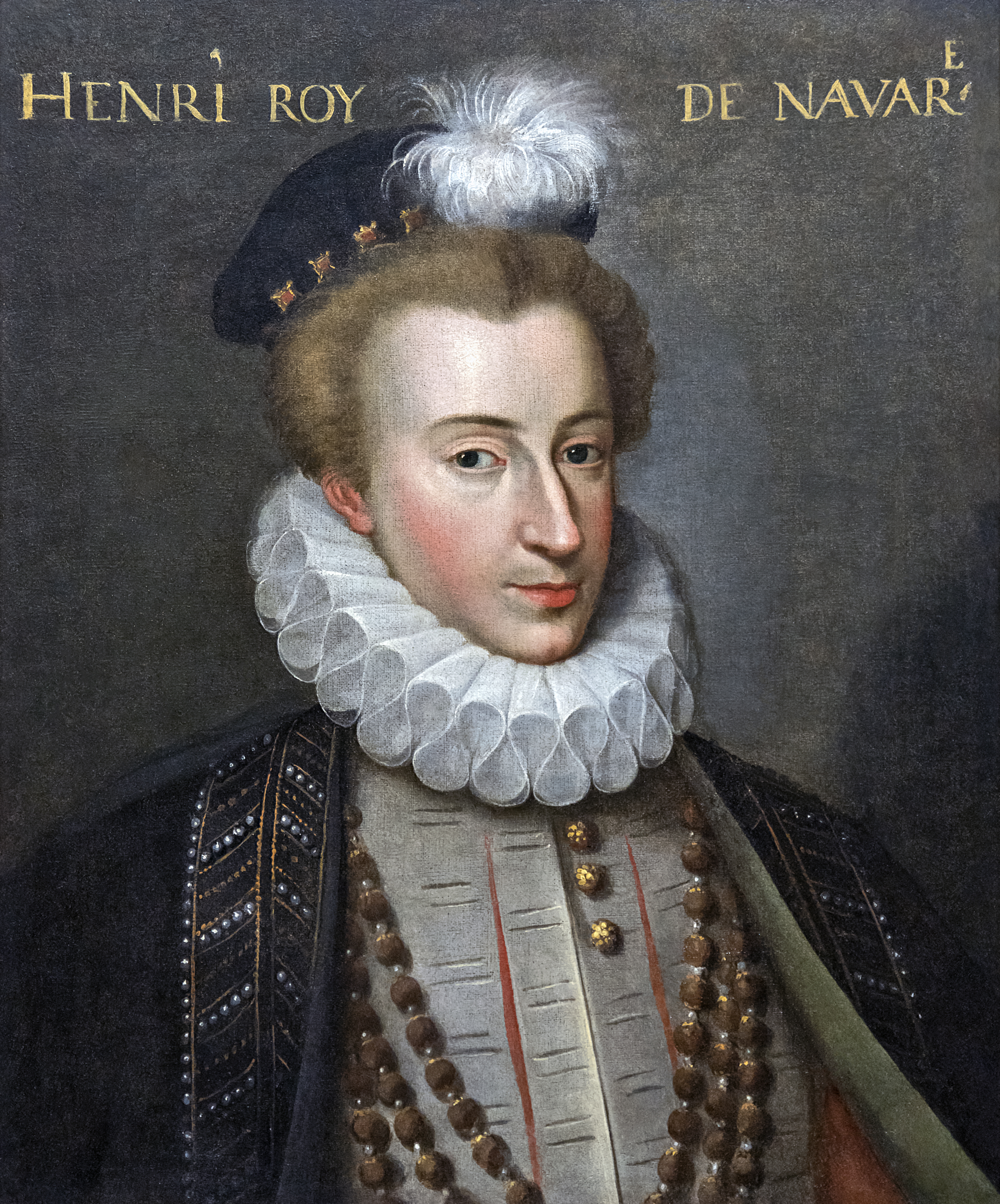 Portrait of King Henry III of Navarre (future Henry IV of France circa 1575. Old letter placed at the top: " Henri Roy de Navar.e. ".